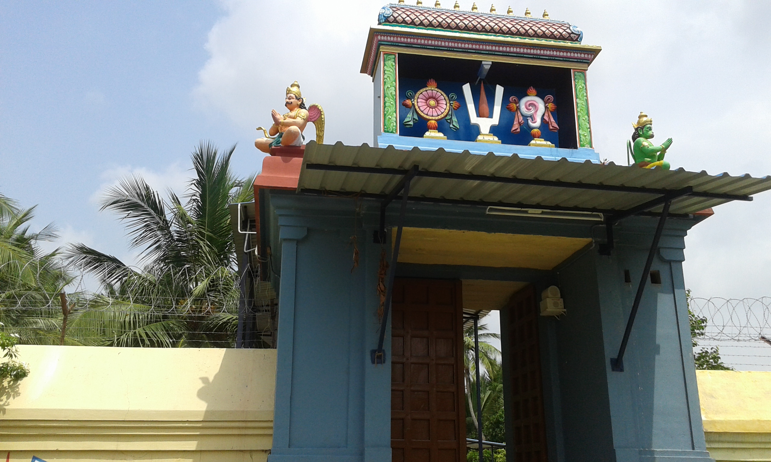 Vaikunda vinnagaram